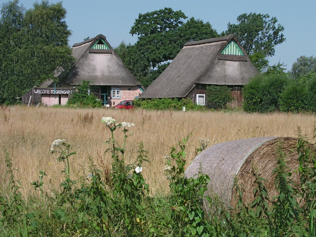 Heidgraben NW (Germany), former farmhouse with barn, photo 1987